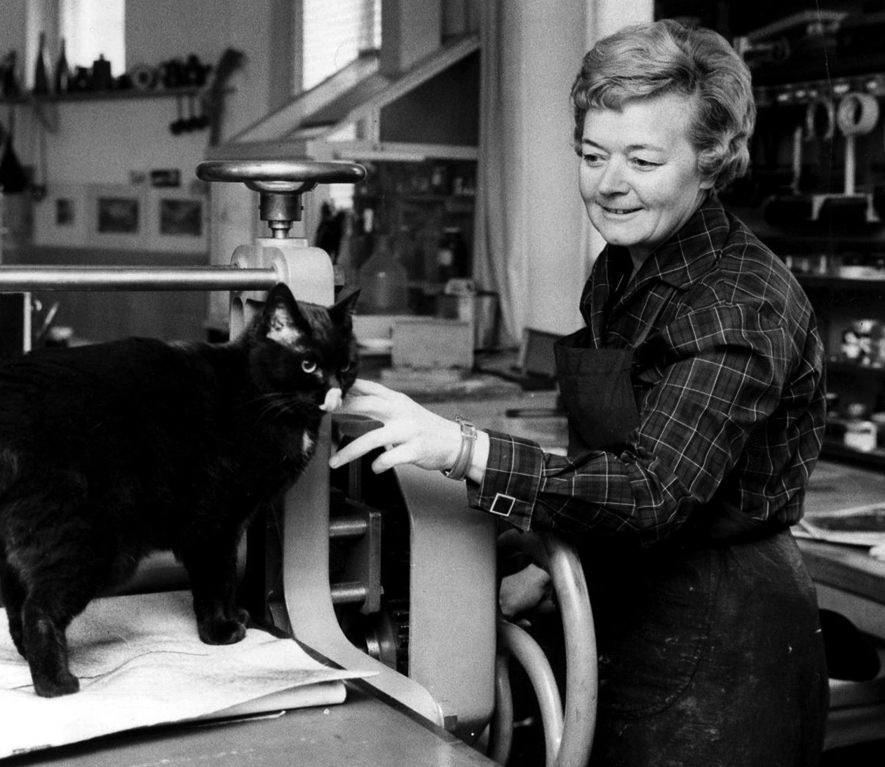 Photograph of the Finnish graphic artist Tuulikki Pietilä (1917–2009) at her studio with a cat.